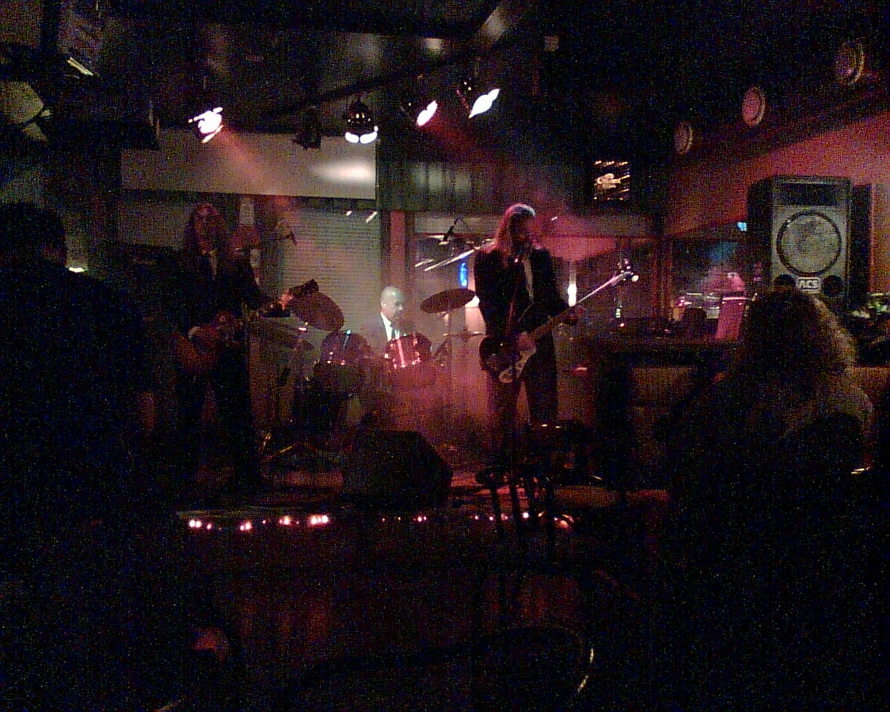 Concert of Lyijykomppania